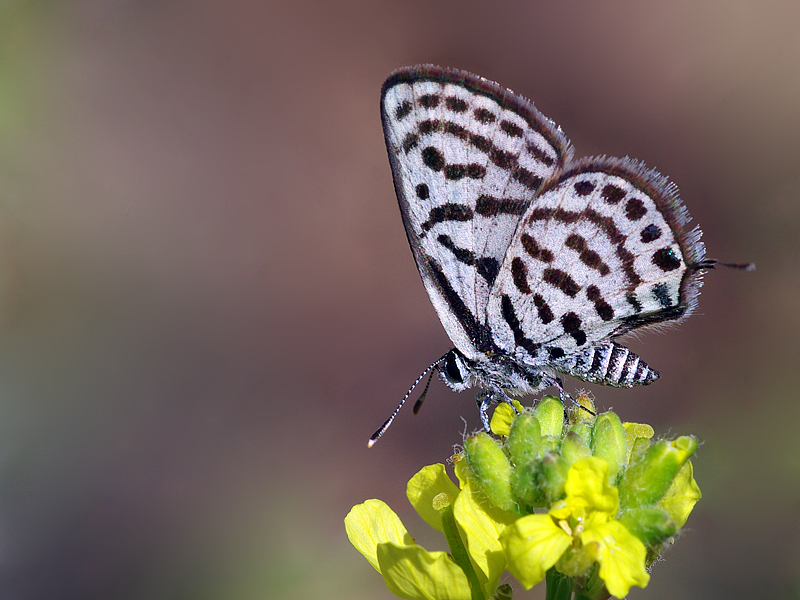 Little Tiger Blue (Tarucus balkanicus), Mersin, TurkeyTürkçe: Balkankaplanı (Tarucus balkanicus). Mersin, Türkiye